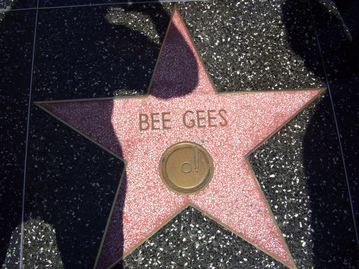 holywood